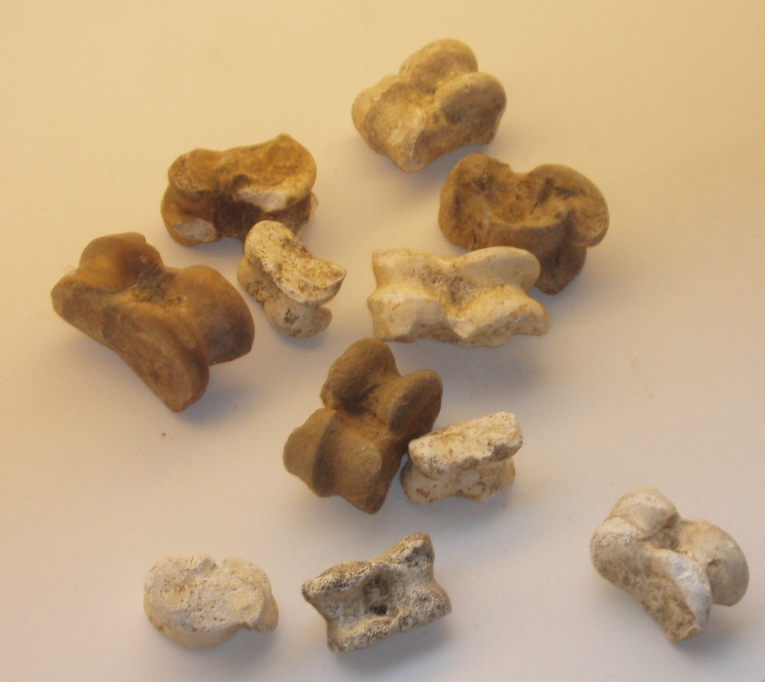 Cambodunum Astragaloi